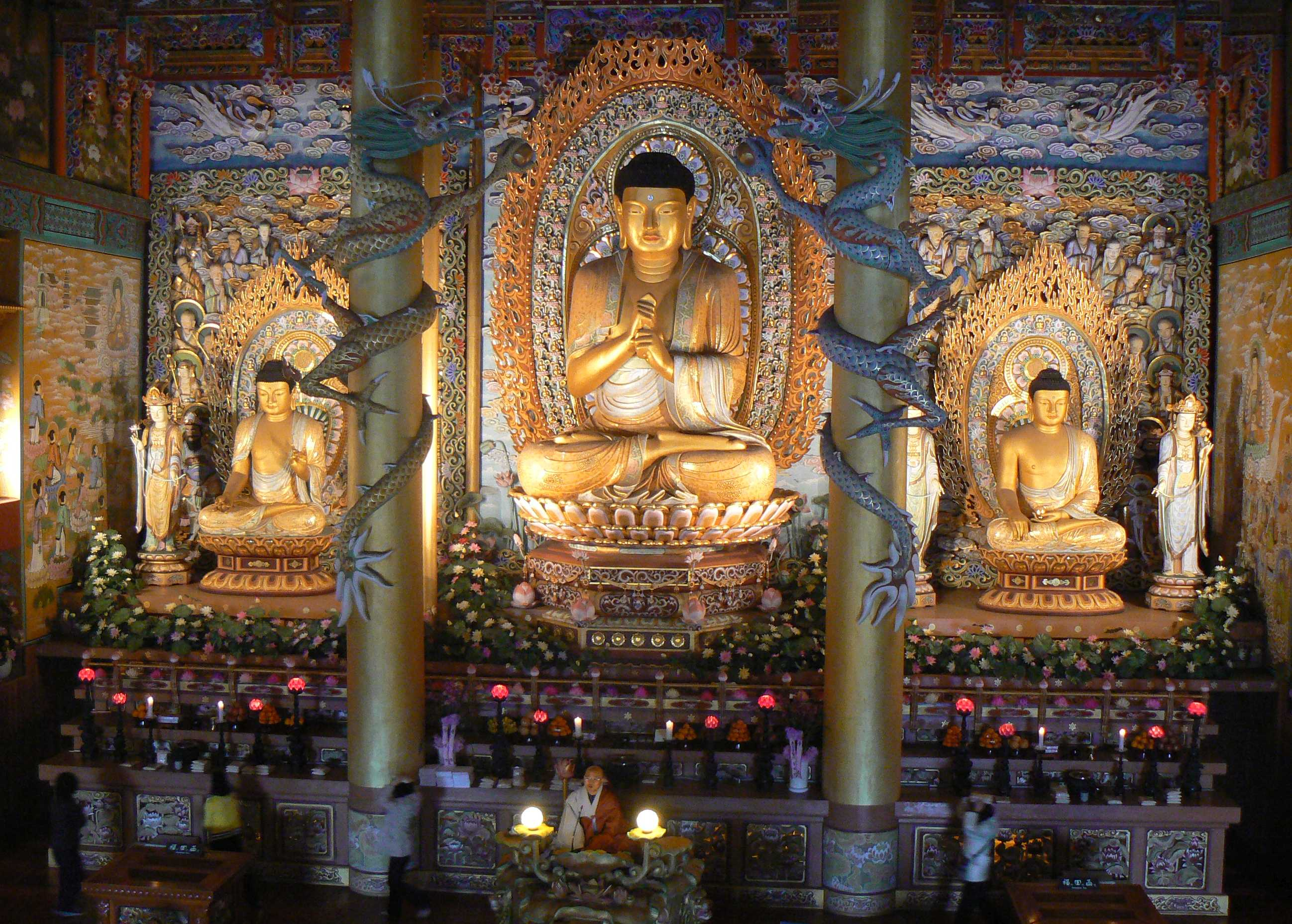 Buddhist Temple - Yak Cheon Sa on Cheju Island Korea